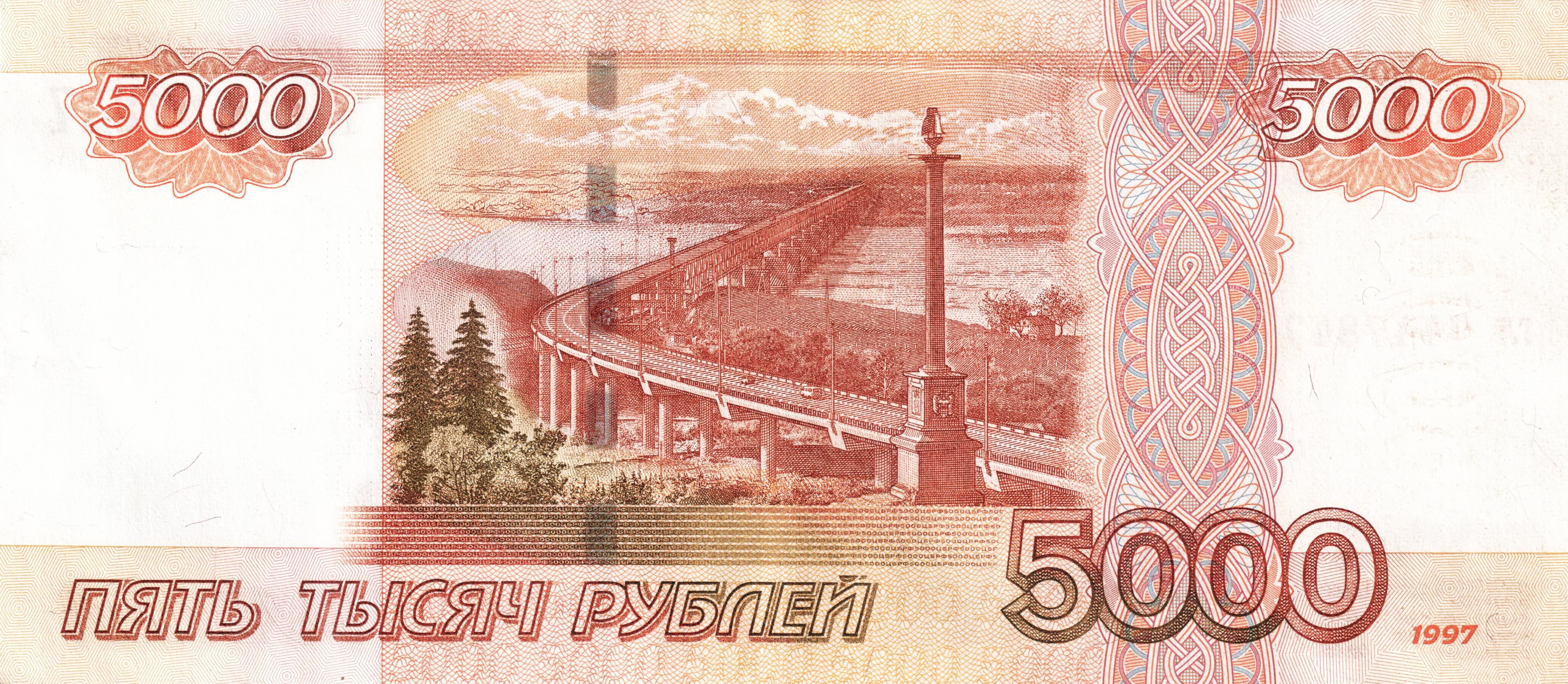 Russian banknote. 5000 rubles. Version of 1997 year. Back